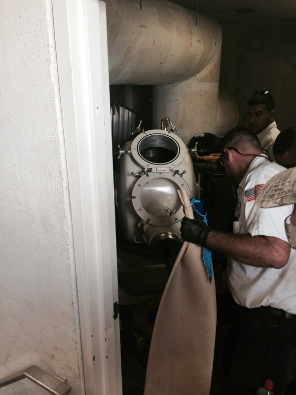 Trenchless Sewer Relining